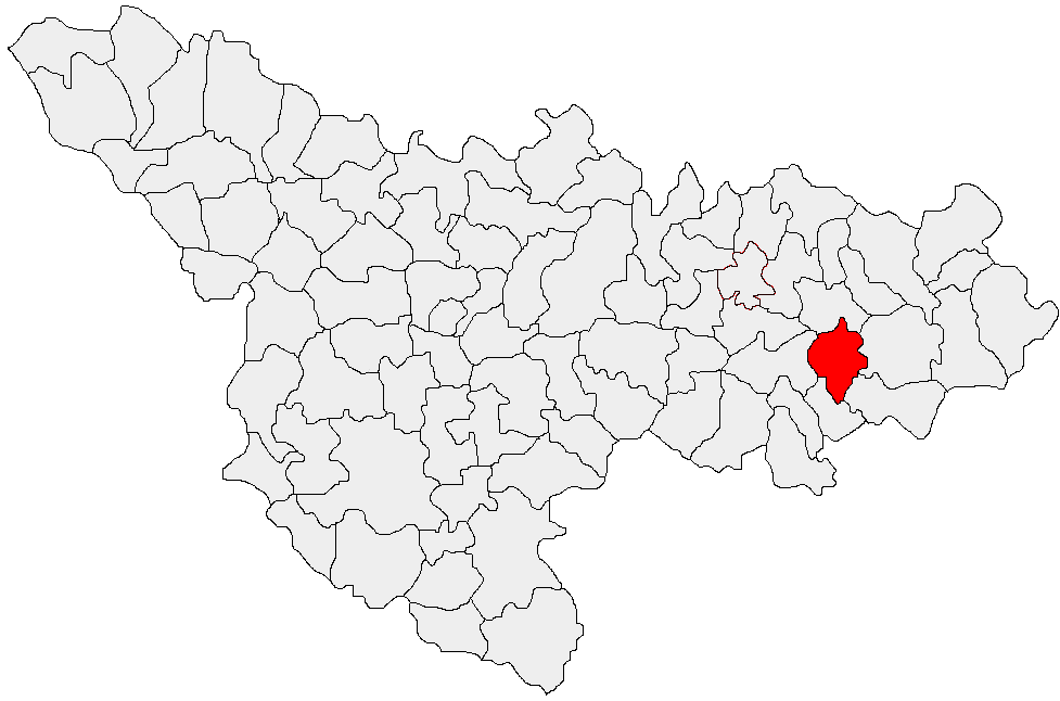 Barna jud Timis, a commune of the Timis judet, Banat, Romania